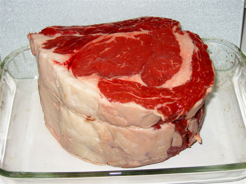 USDA Choice standing rib roast (2 bone).